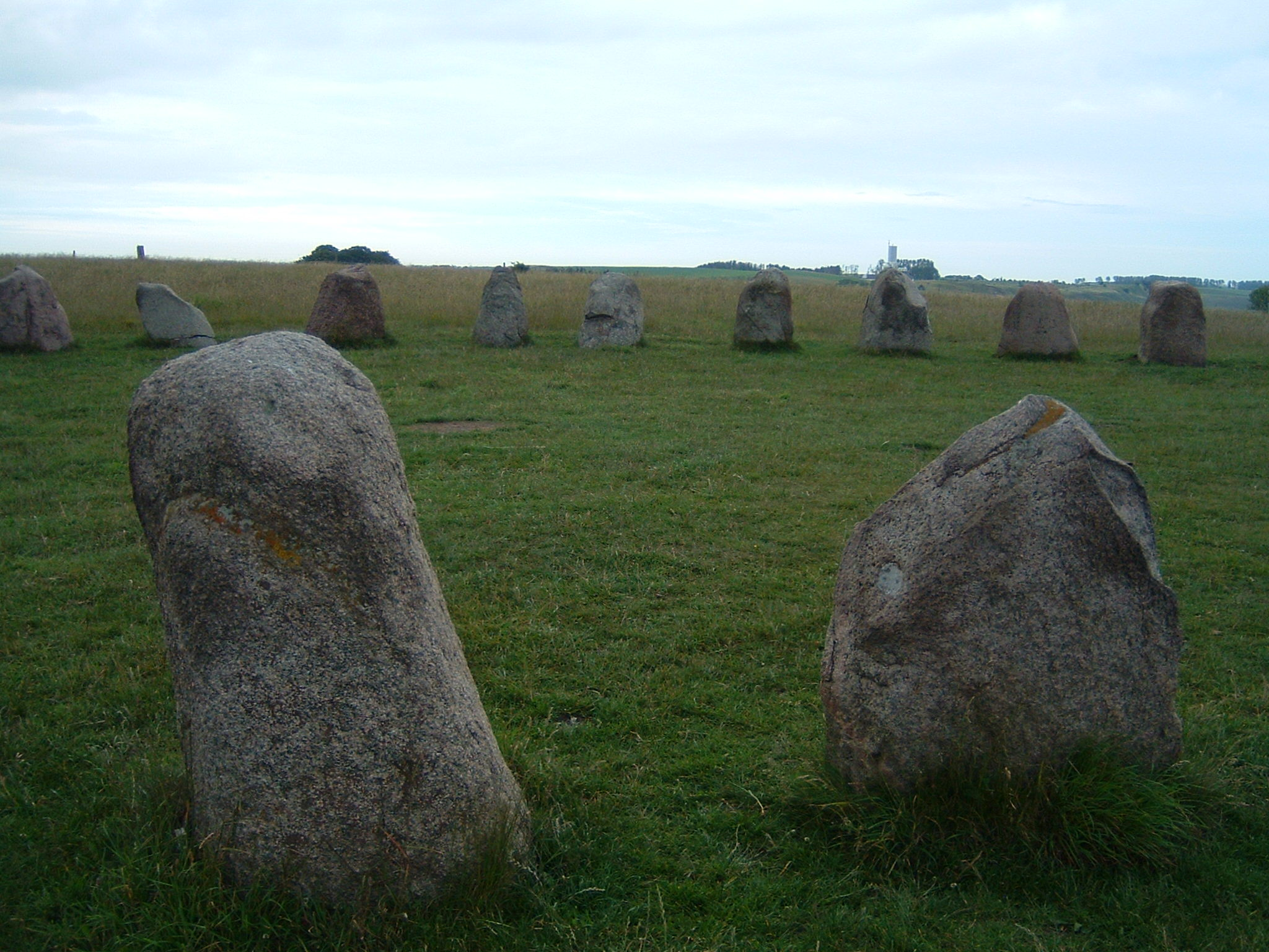 The stone ship "Ales stenar" near Kåseberga in Ystad Municipality, closeup view from west